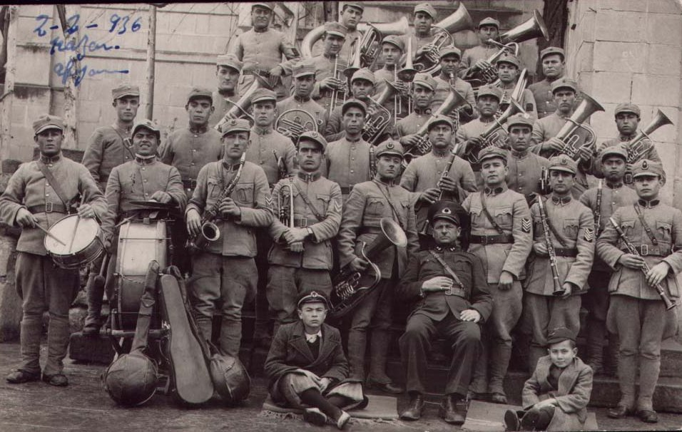 Turkey Army Band, Afyon, 1936